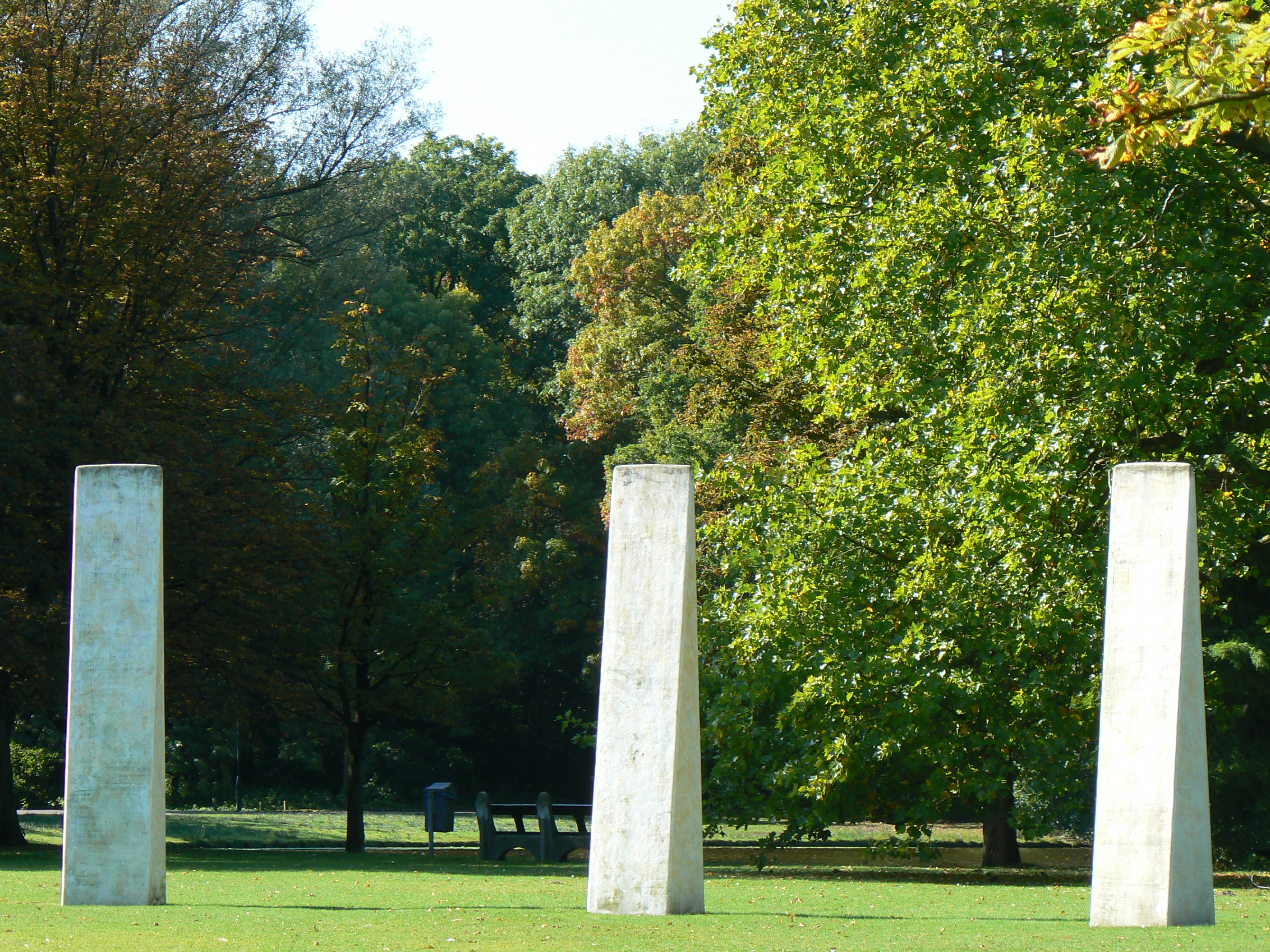 sculpture Drie Wiggen (1984) by Fred Mennnens in Groningen/The Netherlands